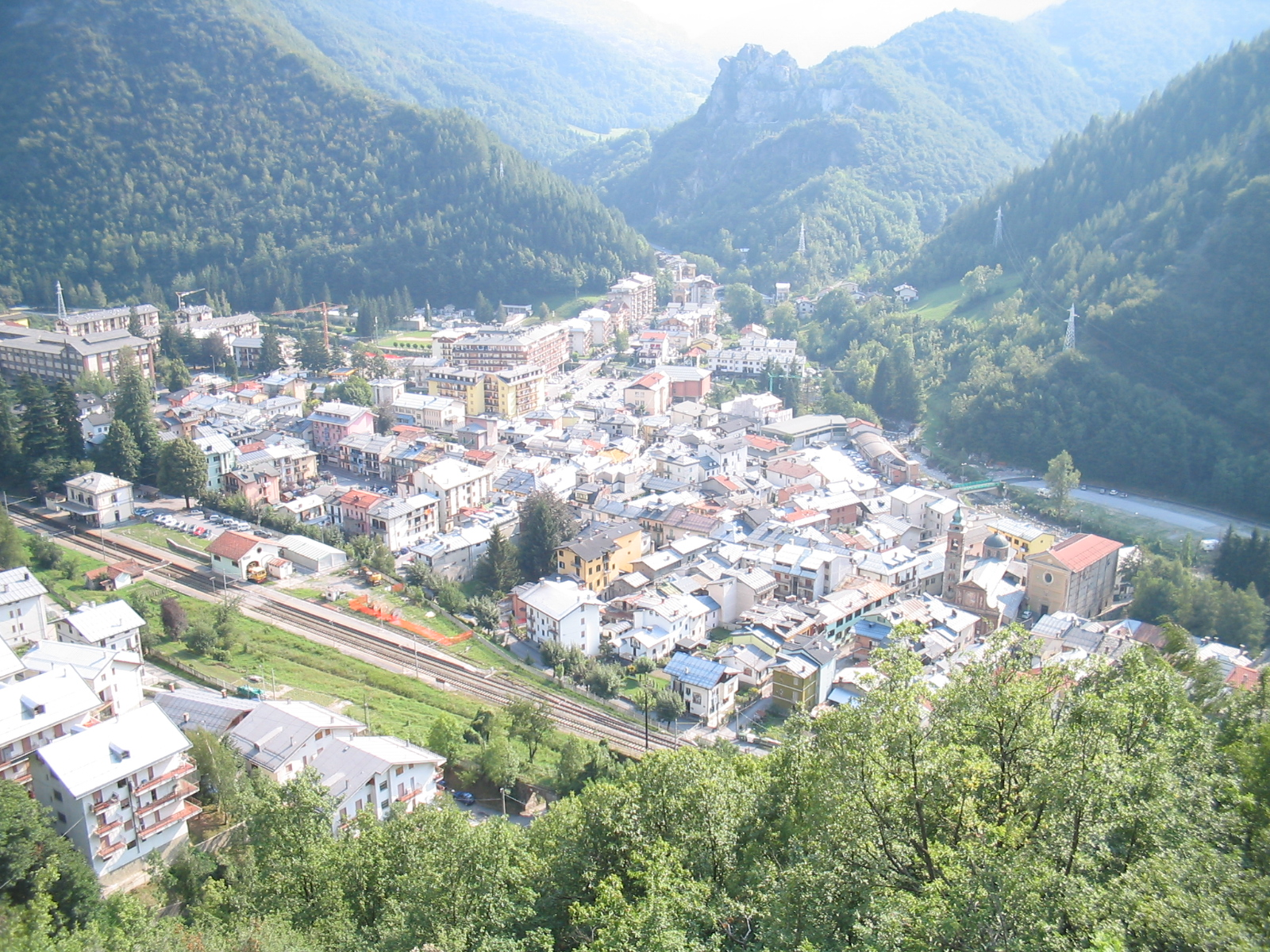 Vernante dal fortino della Tourousela. Photo by Utente:Lohe.